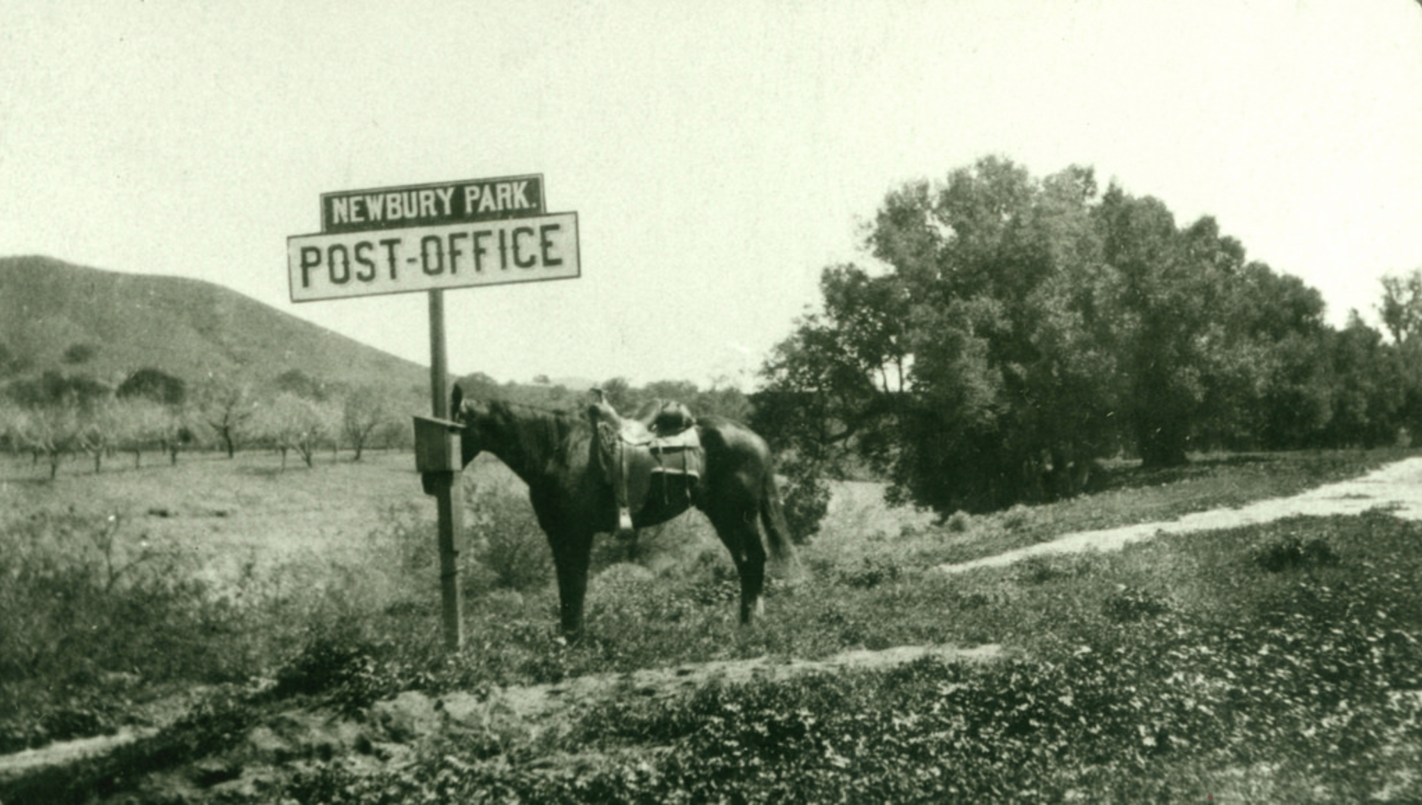 Newbury Park Post Office, 1909. Local History Photo Collection, Thousand Oaks Library Special Collections.